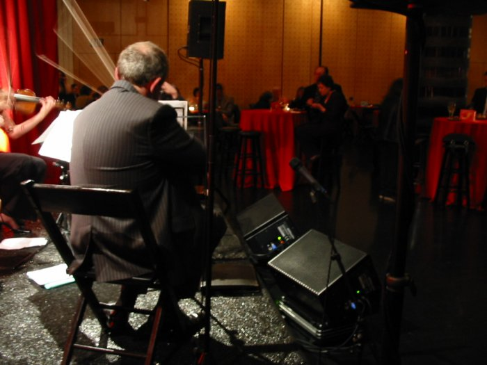 Jeremy Cohen's Quartet San Francisco playing for a private party at San Francisco Museum of Modern Art. The loudspeakers for the audience and for the band are by EONA ADRaudio, in Slovenia.